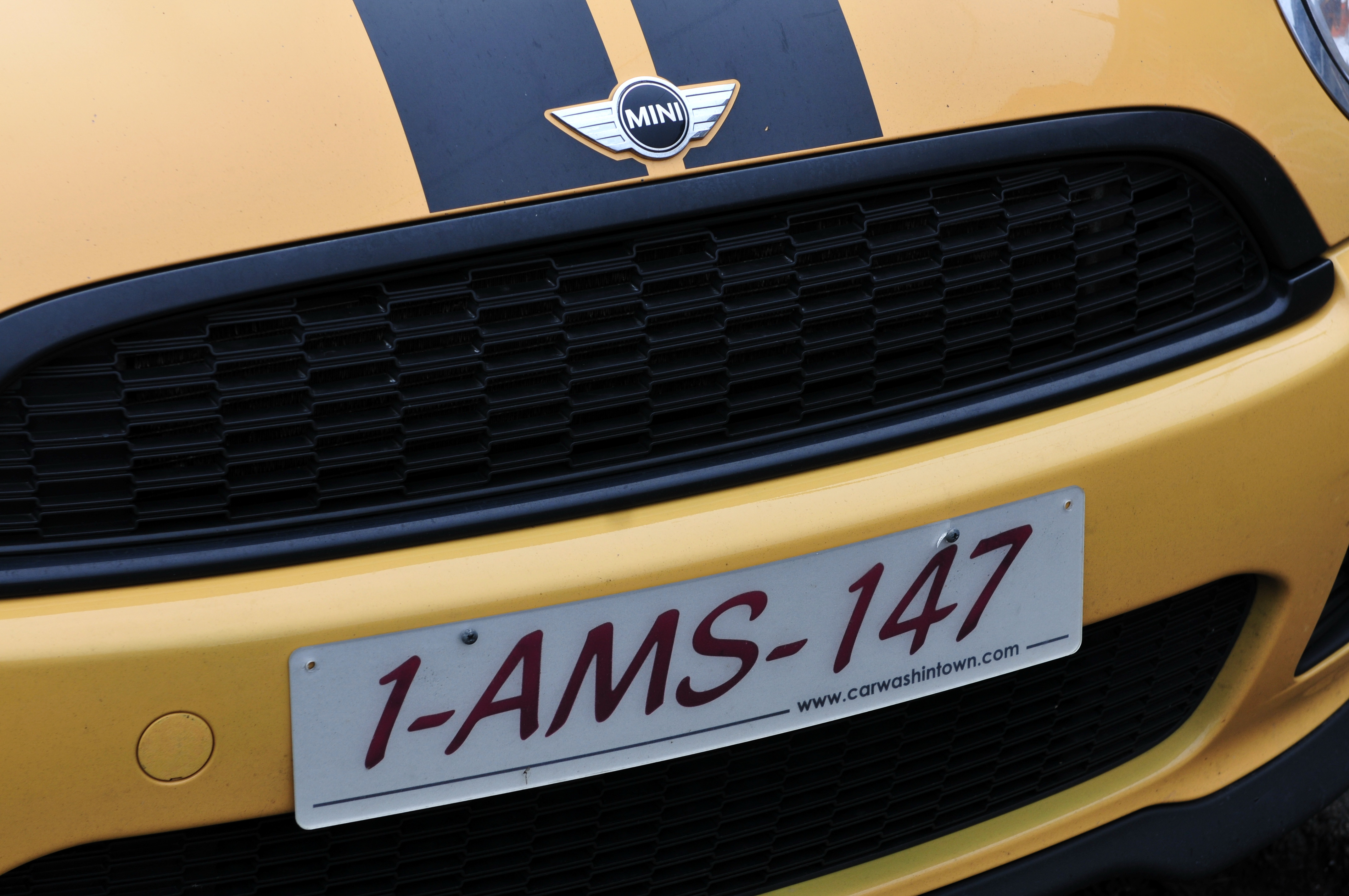 Number plate in Liège, Belgium